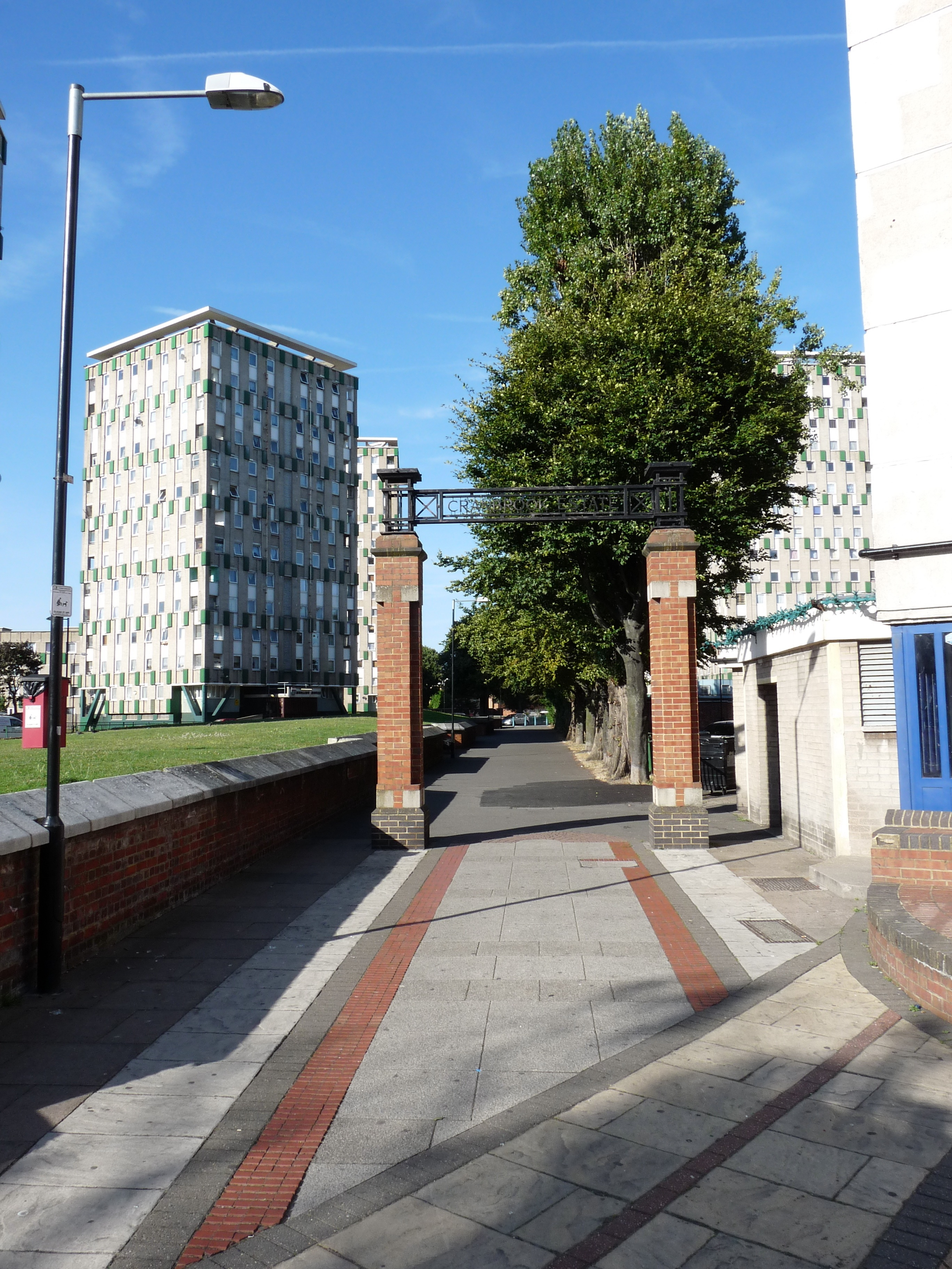 Cranbrook Estate, London, UK, taken from the Roman Road (Bethnal Green). Architect: Berthold Lubetkin